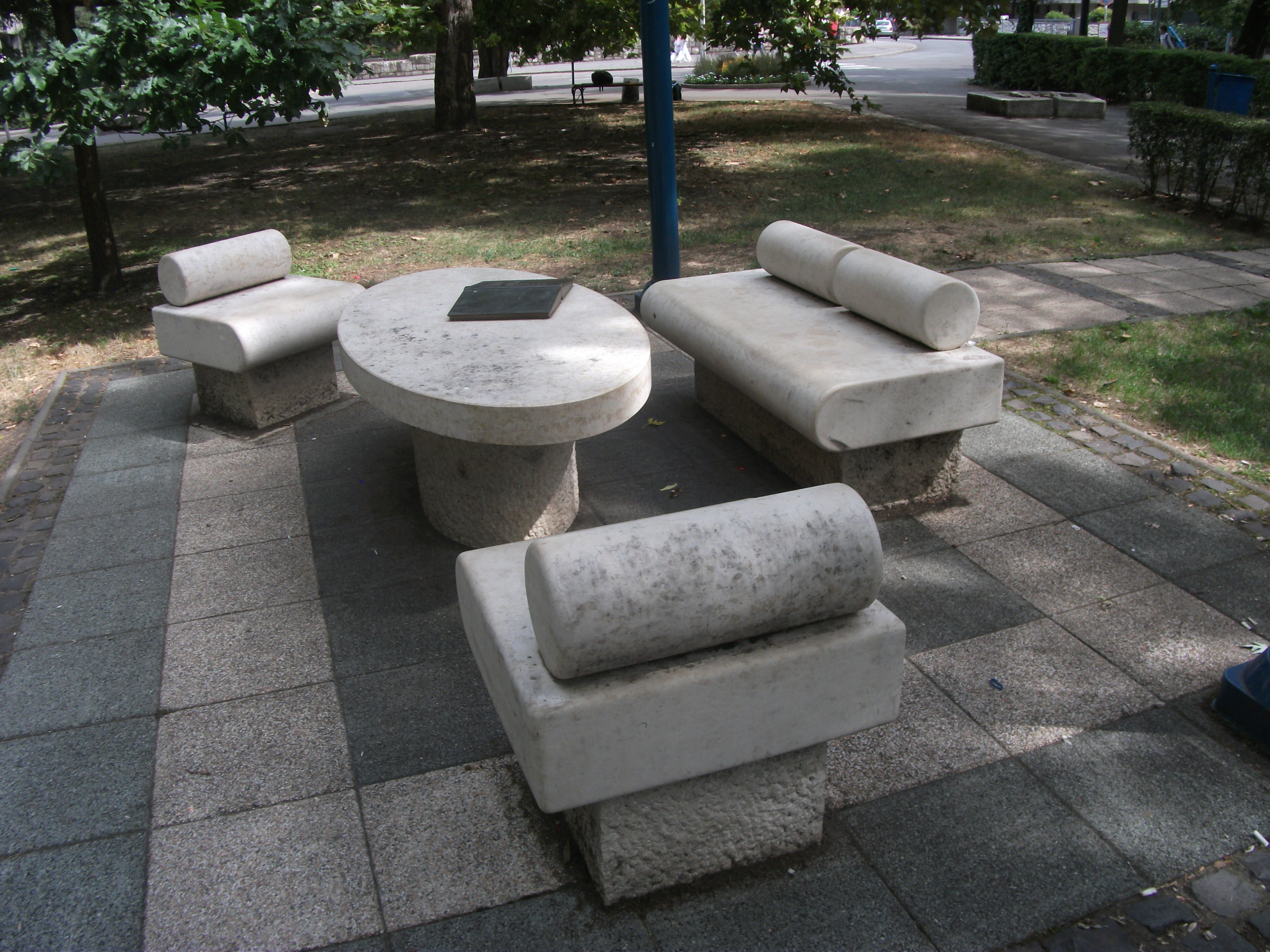 „The Big Read“ in Eger. Sculptor: Zoltán Popovits.